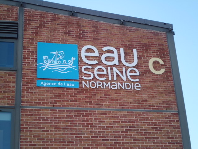 Warehouse C, Rouen, Normandy